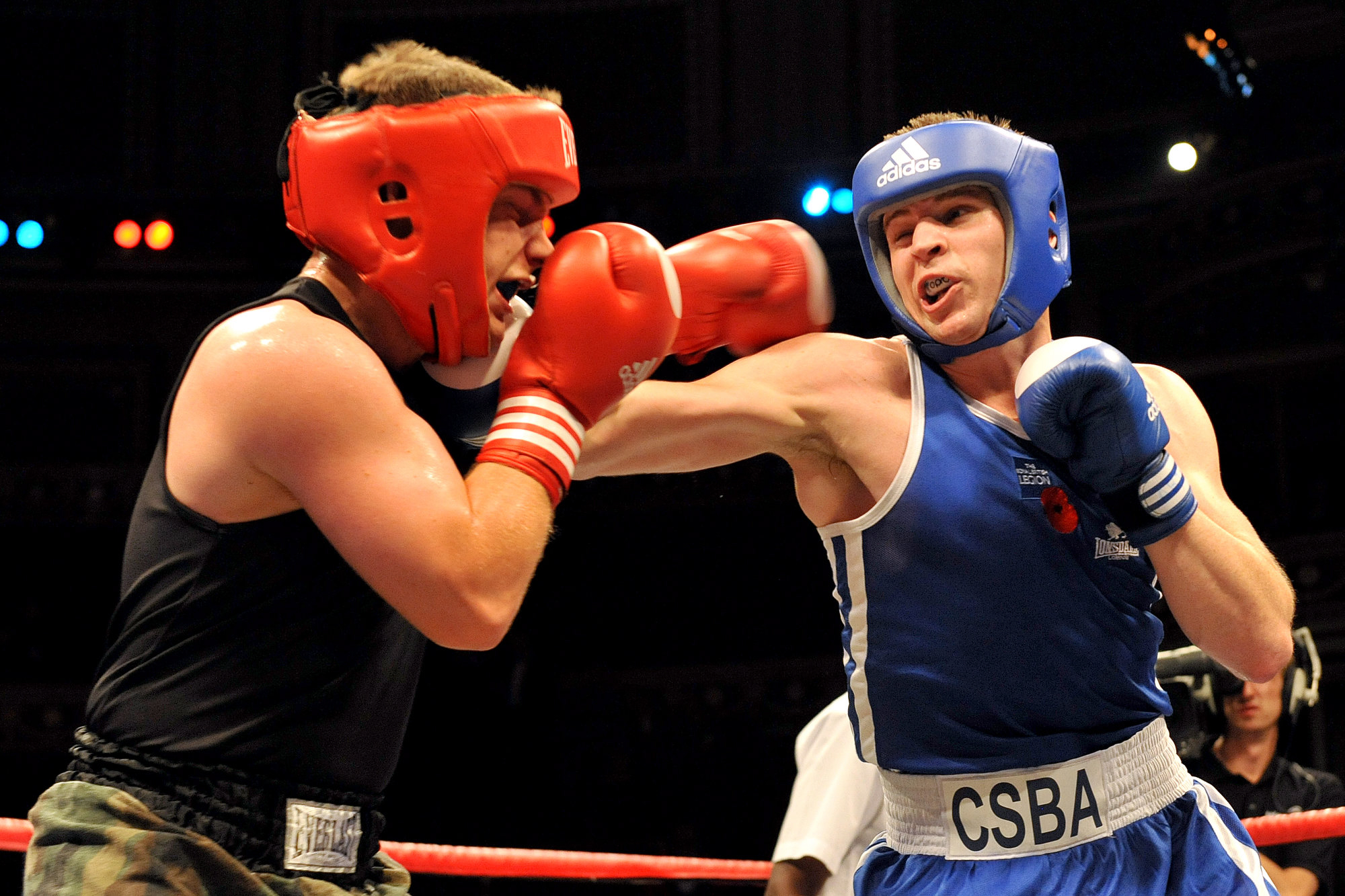 Today, 07/10/2011, boxing returned to the Royal Albert Hall for the first time in over a decade when the UK's Combined Services triumphed over the US Armed Forces to take home the very first Royal Albert Hall Cup. The evening, organised by boxing promoter Frank Warren in his role as a patron for the charity Tickets for Troops, was a fantastic success which saw the likes of Frank Bruno MBE, Barry McGuigan MBE Johnson Beharry VC and over 4000 other foces personnel in attendance to witness the Brits triumph by 5 bouts to 4.